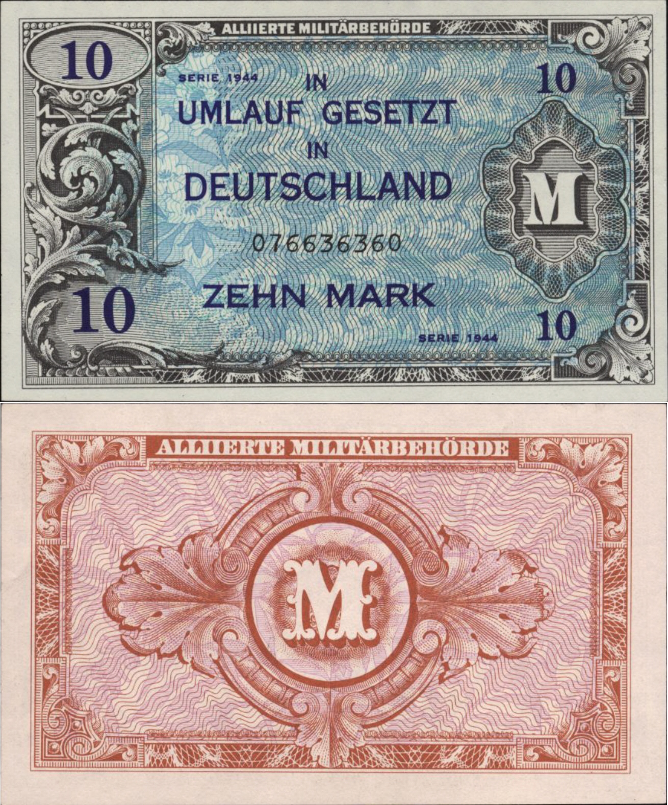 10 Mark allied military currency, westallied issue